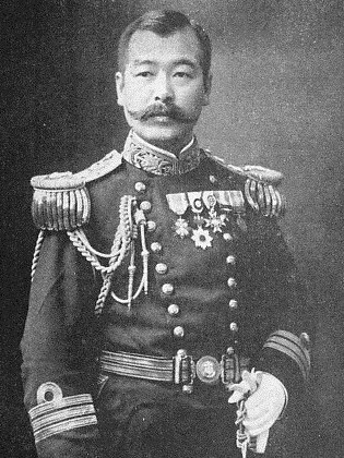 Cropped photograph of Japanese Navy Minister, Abo Kiyokazu